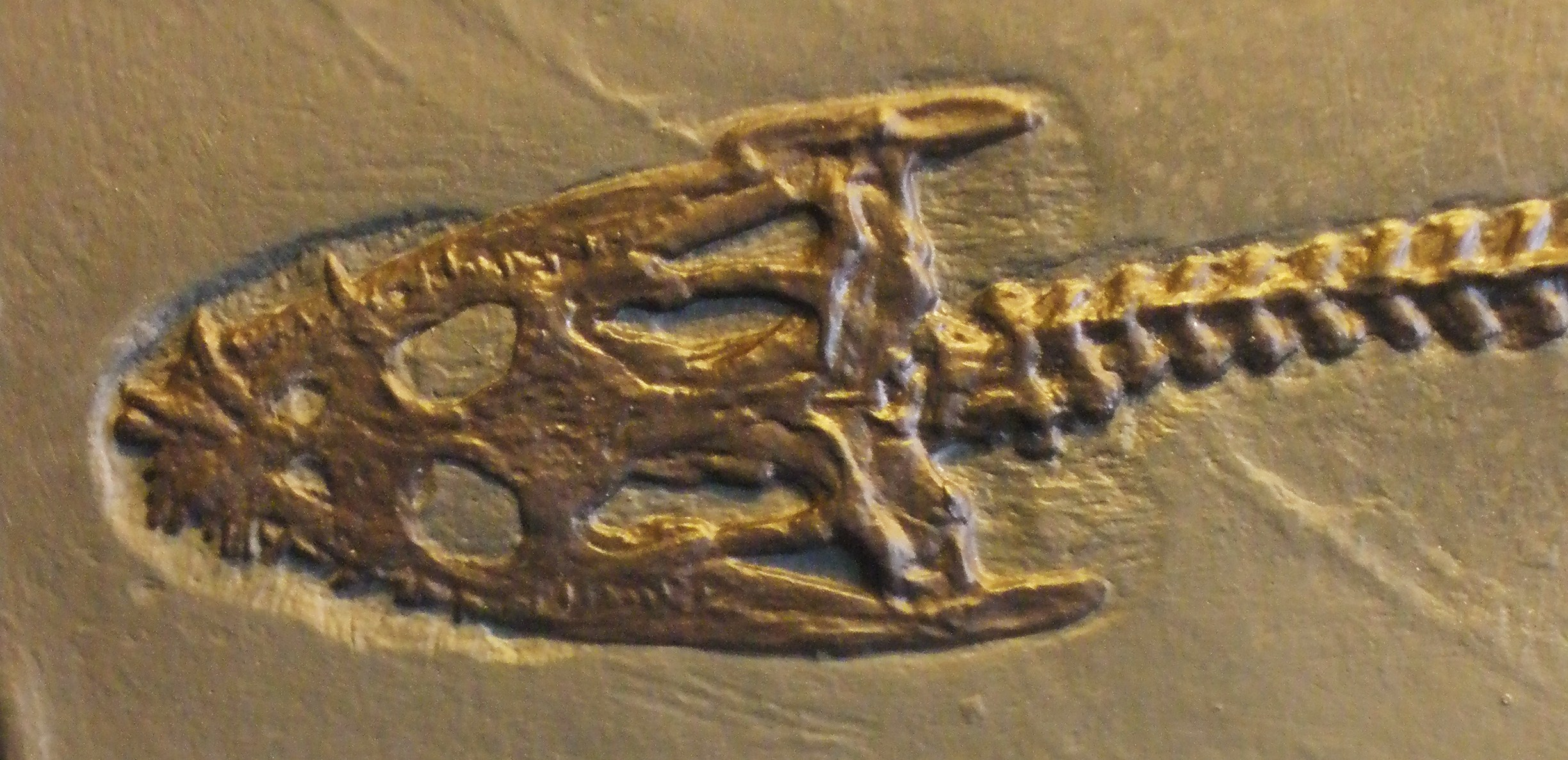 fossil lariosaurus